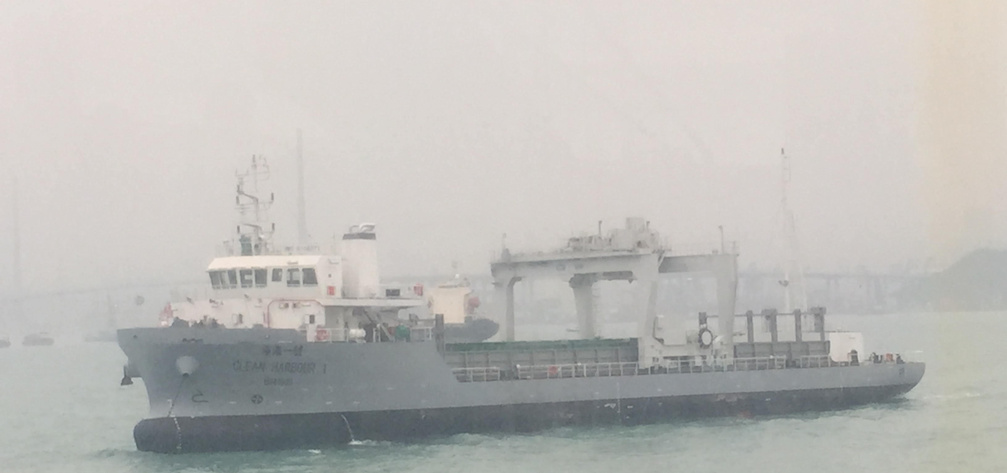 Vessel Name:Clean Harbour 1 Type: Container Ship Owner: Drainage Services Department, Hong Kong Special Administrative Region Government Commissioned: 5 March 2015 Maritime Mobile Service Identity:477995437 International Maritime Organization Number:9708277 Official Number:HK-4292 Call Sign:VROH7中文（香港）: 船隻名稱:淨港一號 類別:貨櫃船 持有人:香港特別行政區政府渠務署 服役:2015年3月5日 海上移動服務識別號:477995437 國際海事組織編號:9708277 正式編號:HK-4292 呼號:VROH7